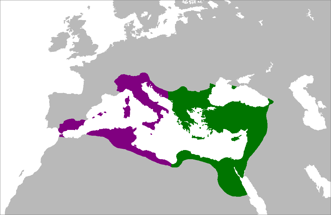 Map of the Byzantine Empire at its greatest extent in the 6th century. Territories in purple were reconquered during the reign of Justinian I.